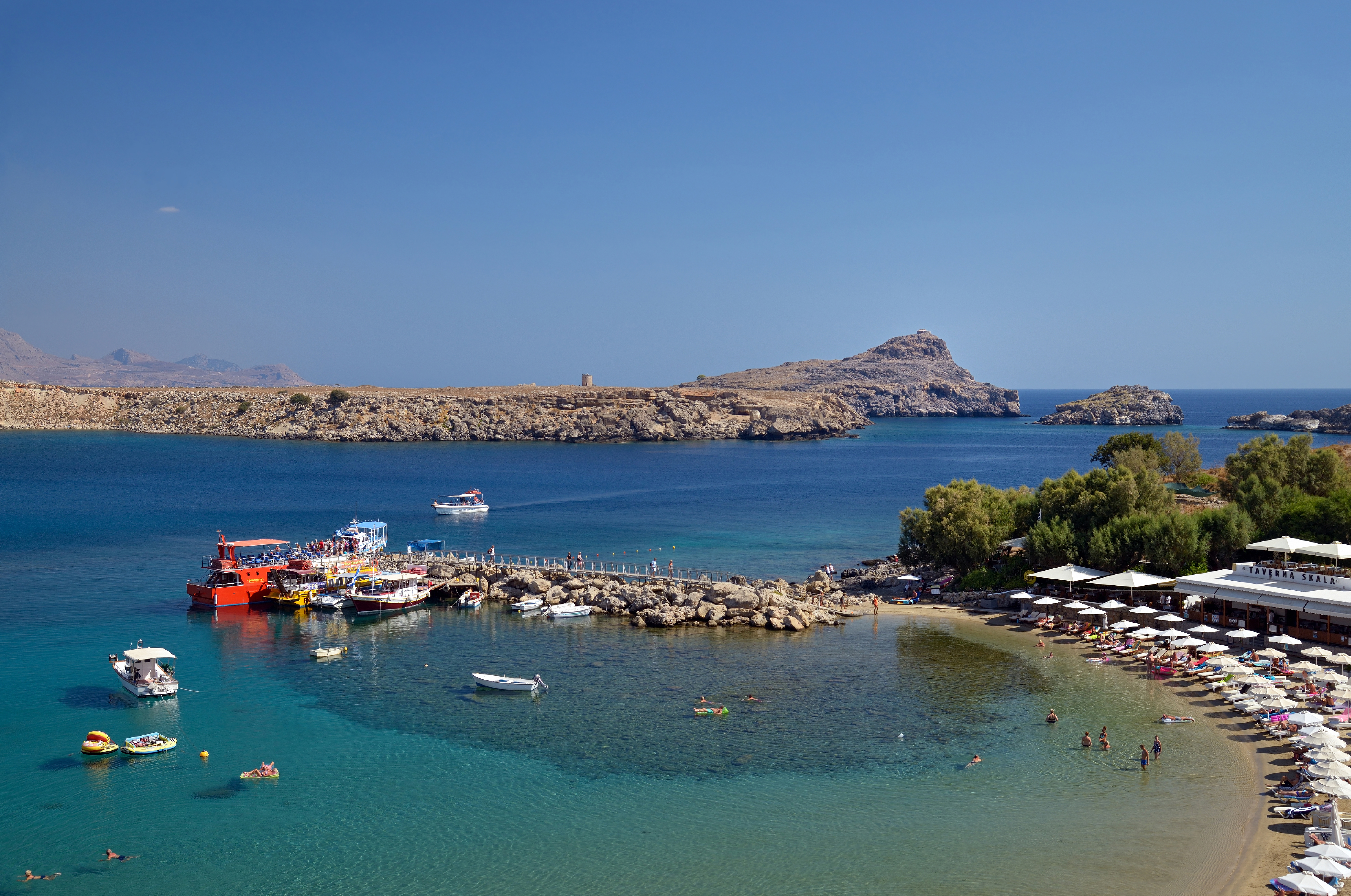 Pier at Lindos. Rhodes, Greece